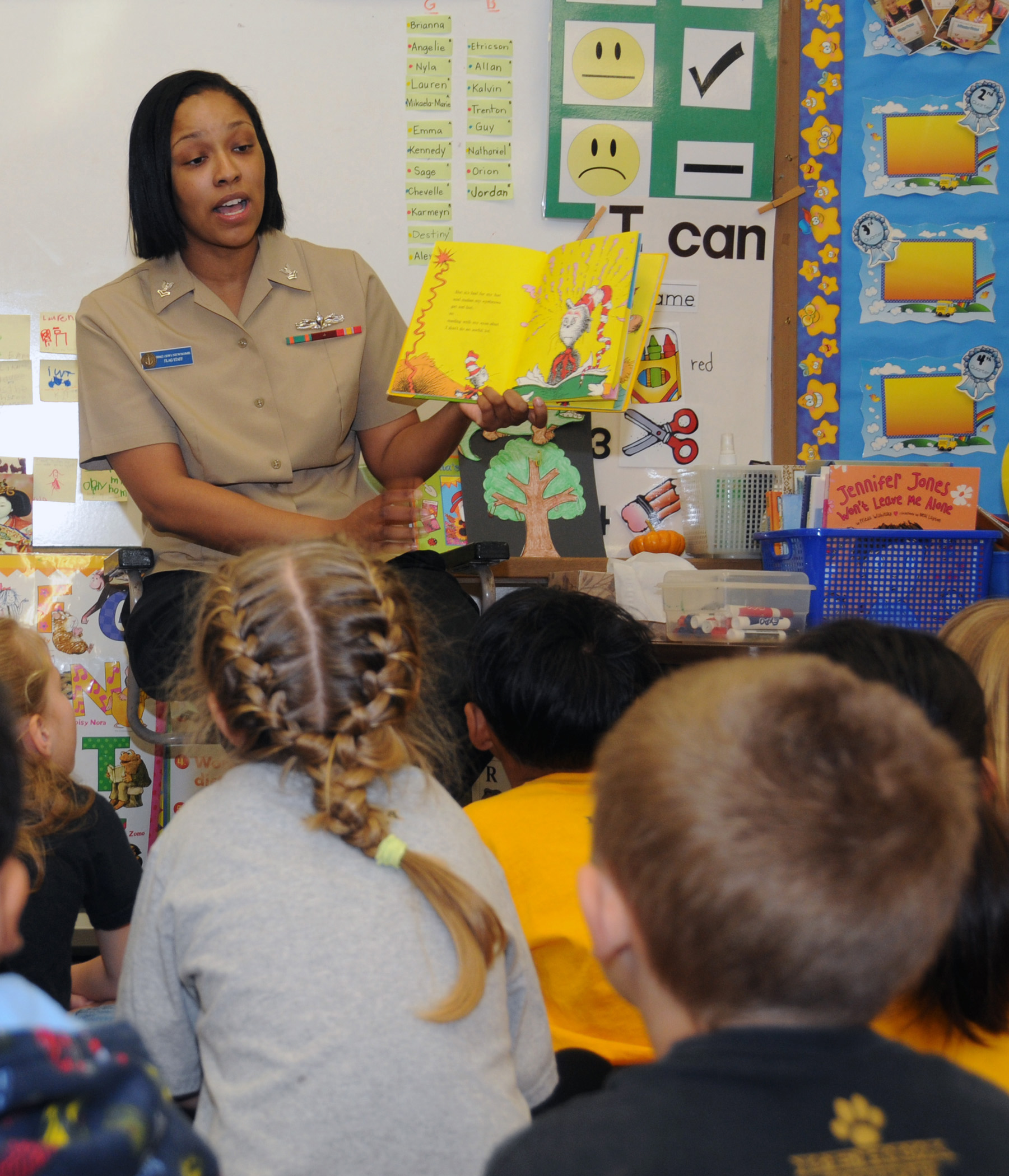 PEARL HARBOR (March 3, 2009) Boatswain's Mate 2nd Class Rasheema Newsome, assigned to Commander, Navy Region Hawaii, reads Dr. Seuss' The Cat in the Hat to kindergarten students at Lehua Elementary School. Students from kindergarten to sixth grade celebrated the 105th birthday of author Theodore Seuss Geisel with readings of his classic books by 10 Pearl Harbor-based Sailors. (U.S. Navy photo by Mass Communication Specialist 3rd Class Robert Stirrup/Released)